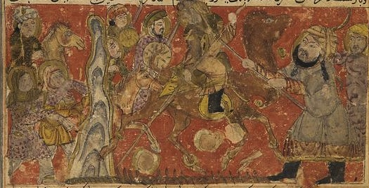 Folio from a Tarikhnama (Book of history) by Balami(died in late 10th century)